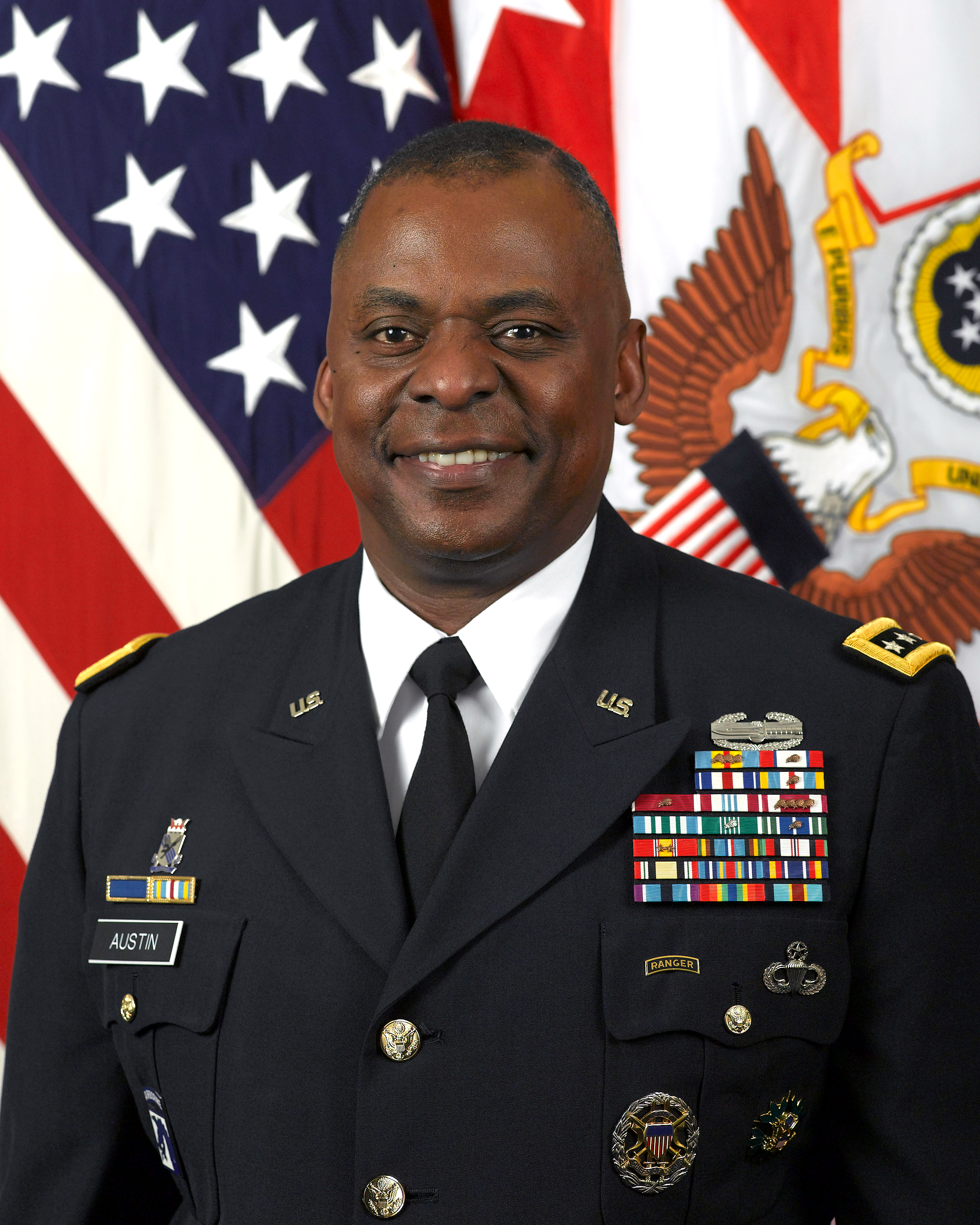 General Lloyd Austin III, USA33rd Vice Chief of Staff of the Army